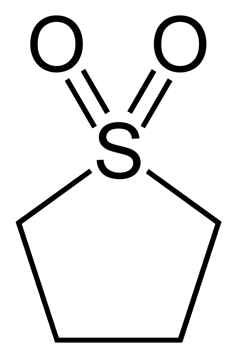 Skeletal formula of sulfolane